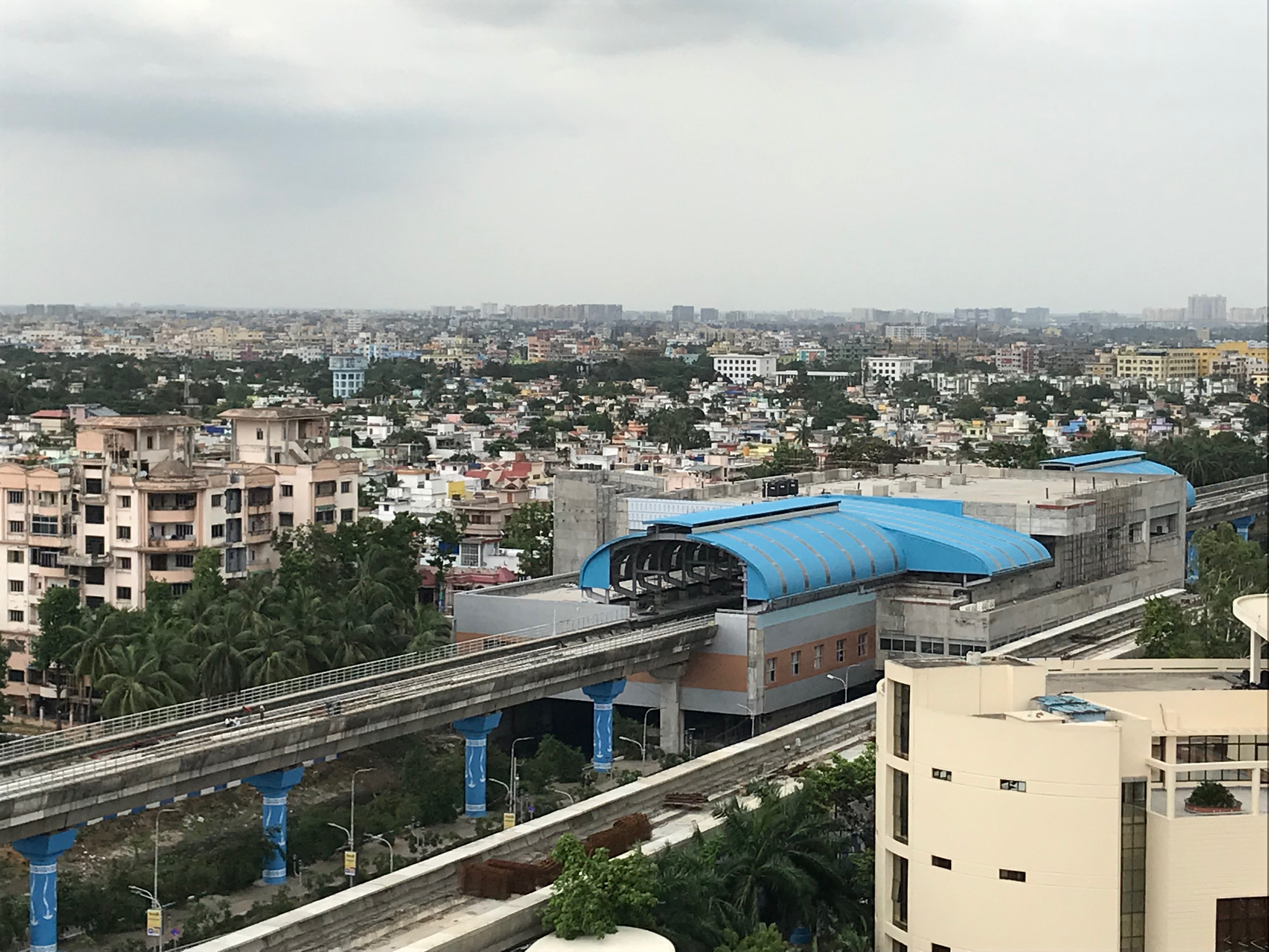 Birds Eye View of under Construction Sector V Metro Station of Kolkata Metro Line 2 May 2018